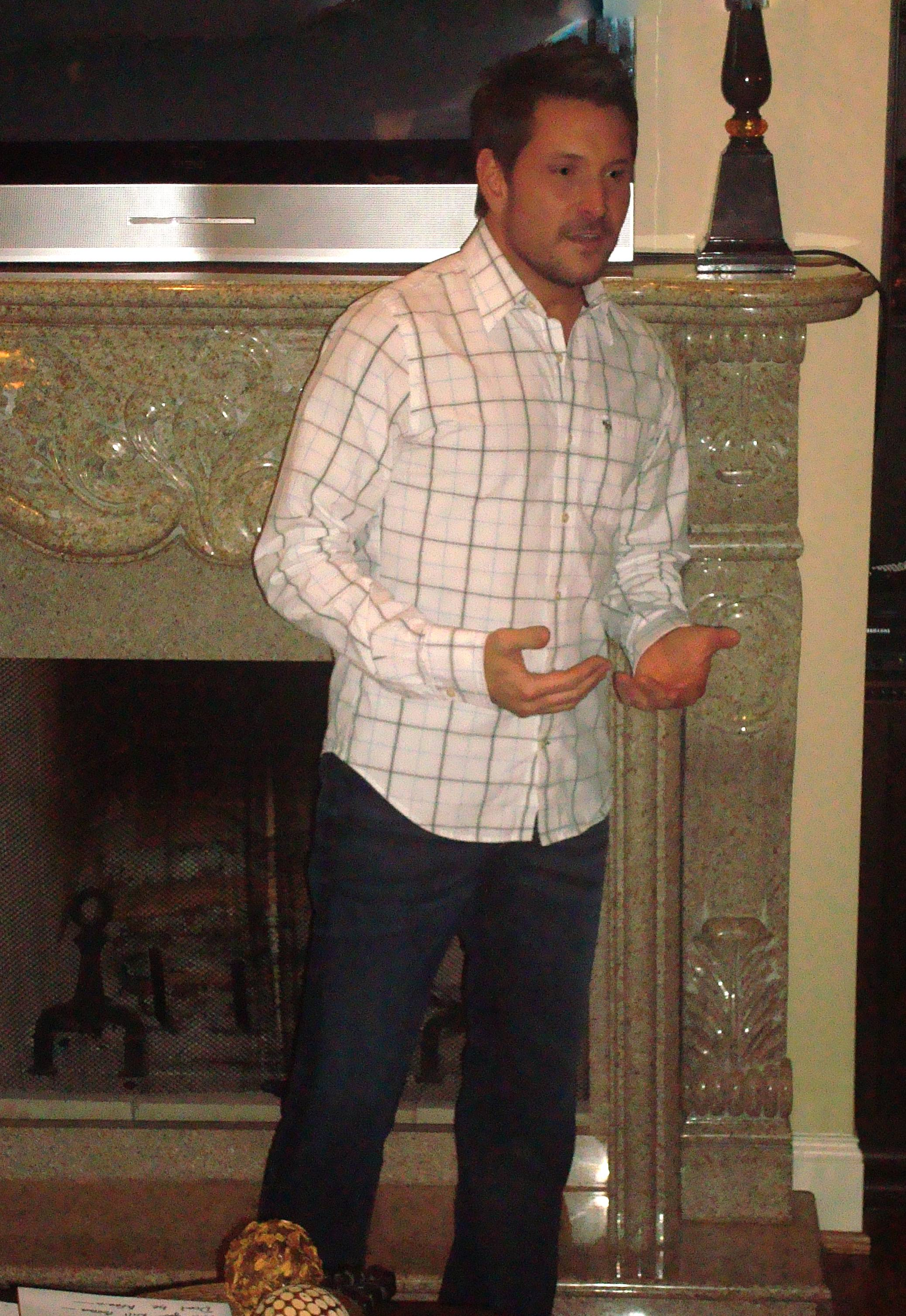 Country music singer Ty Herndon.